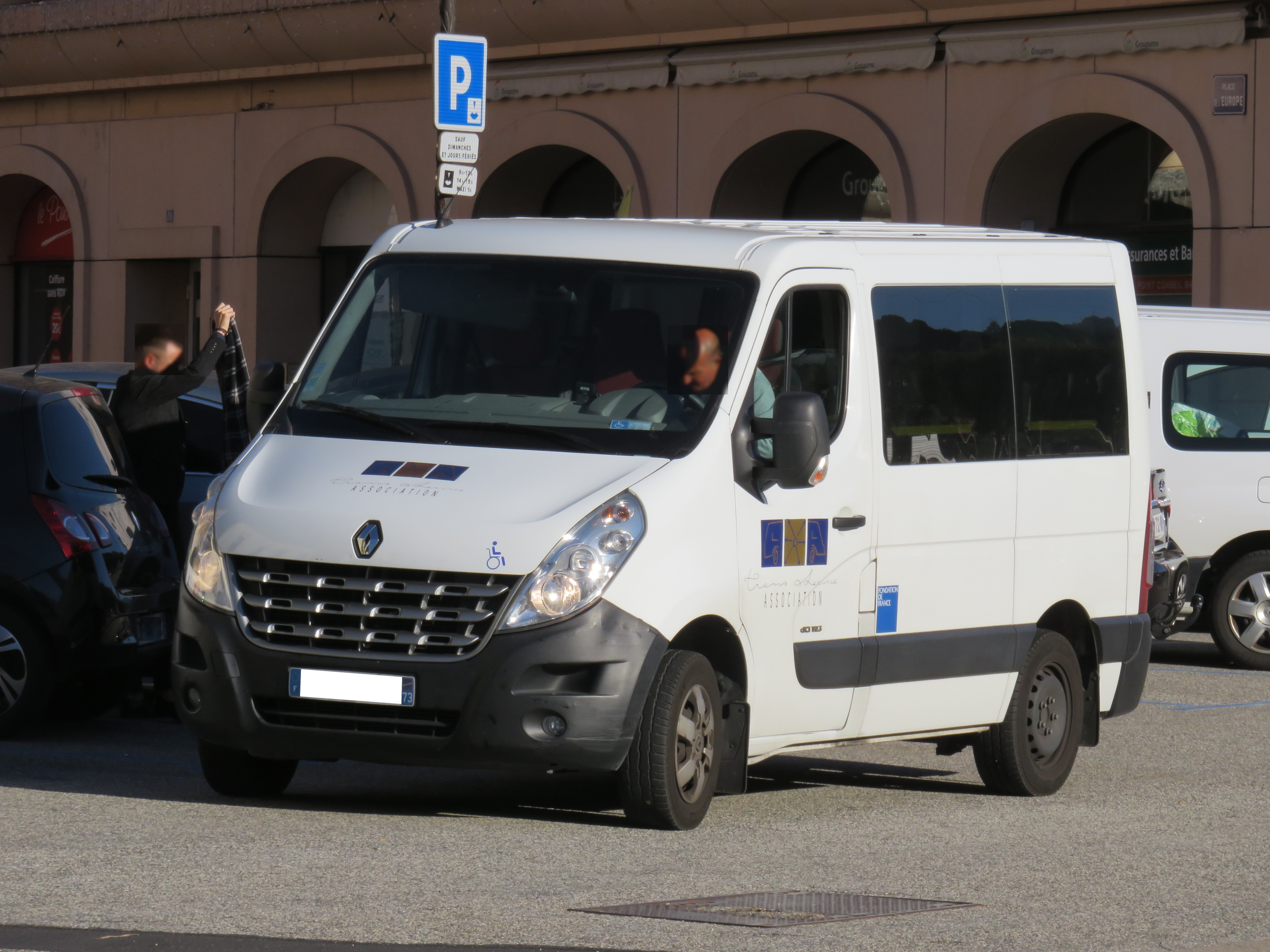 A Renault Master III (Trans Service Association) parked in front of the town hall (Albertville, France) on September 28, 2018.